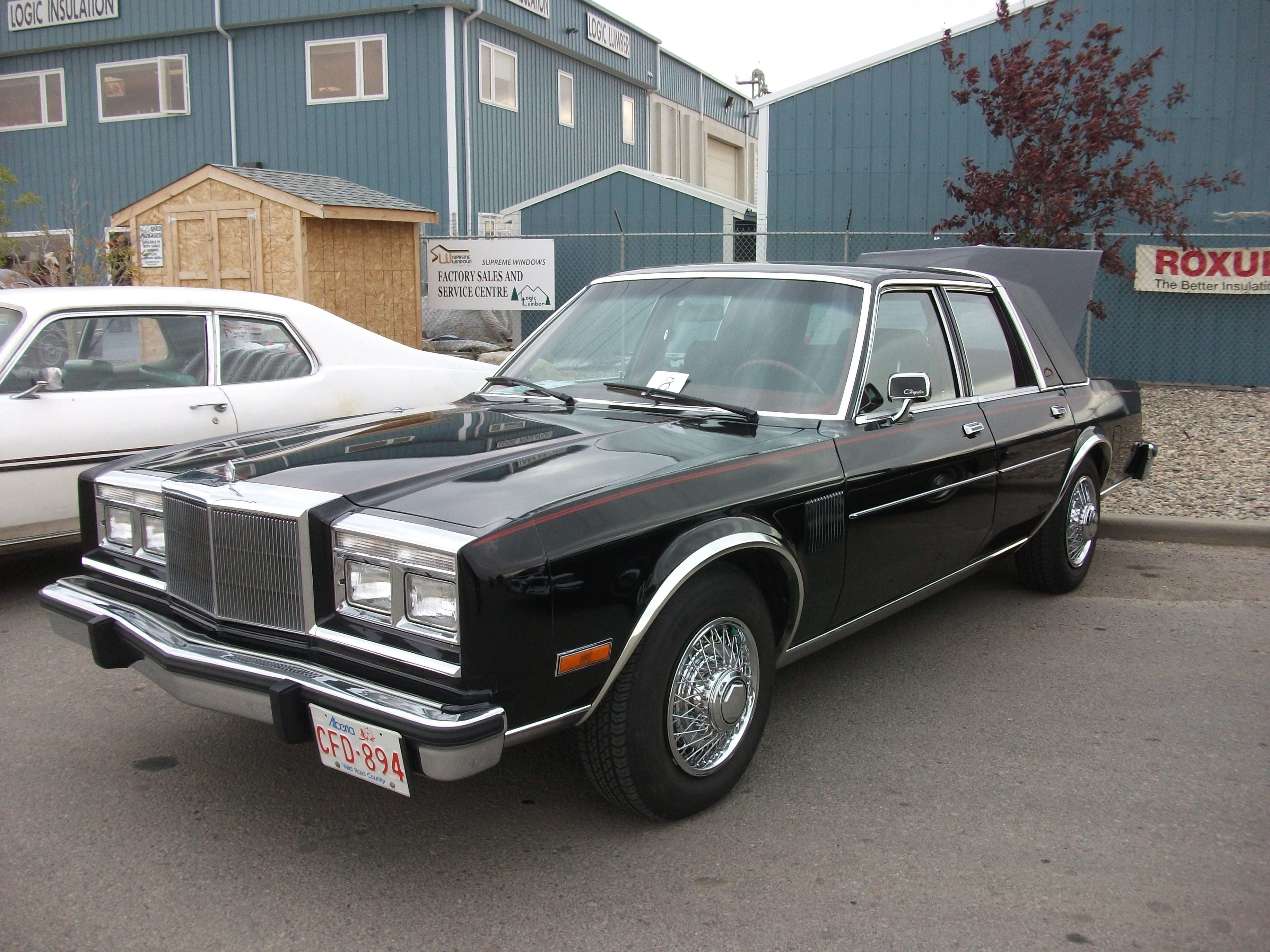 Chrysler Fifth Avenue